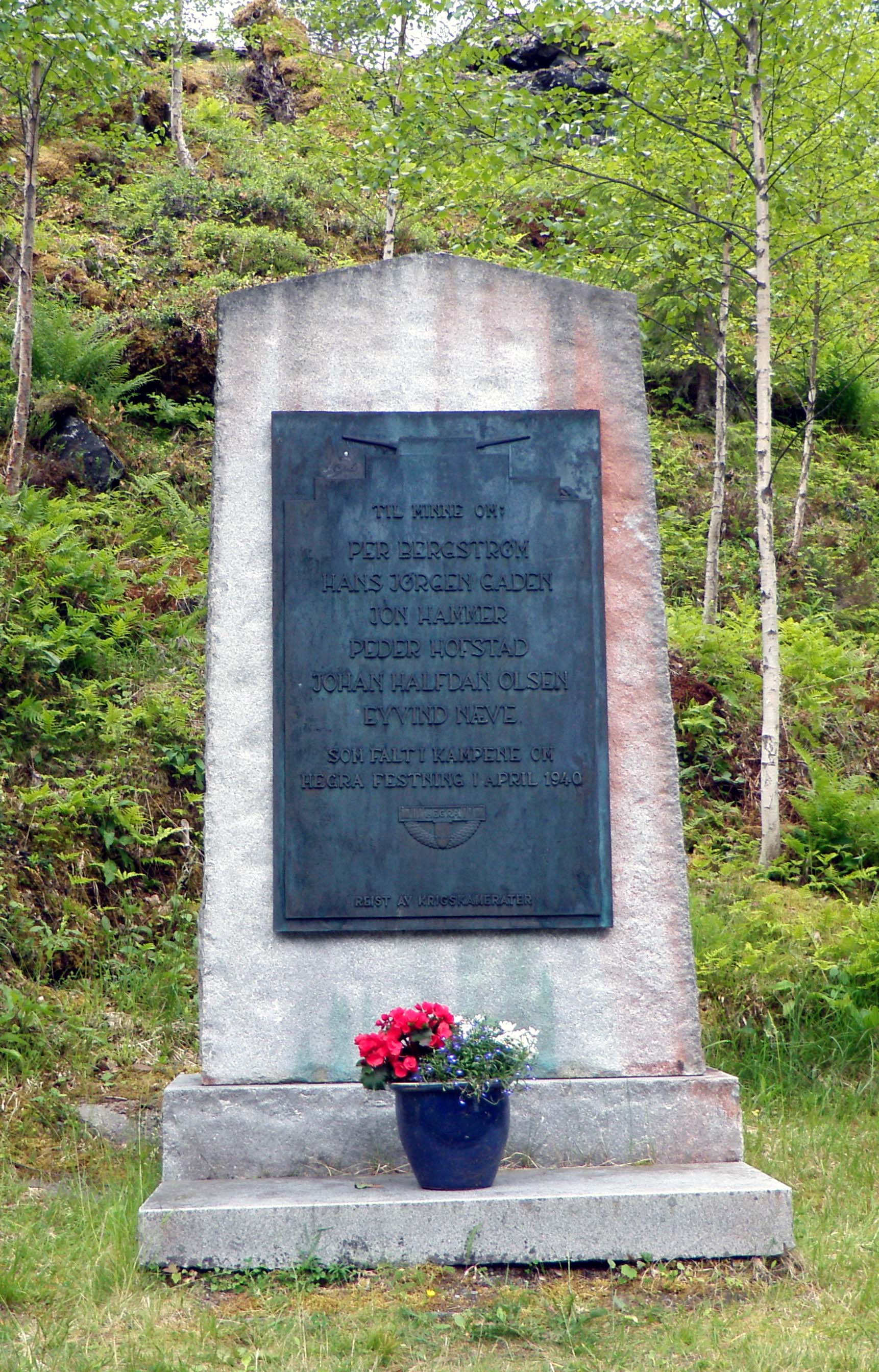 Memorial plaque in memory of the six Norwegian soldiers who were killed in the April-May 1940 Battle of Hegra Fortress, raised by fellow veterans of the battle. The memorial is located next to the entrance gate to Hegra Fortress, in Hegra, Norway.